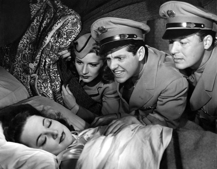 Olivia de Havilland, Julie Bishop, Robert Cummings, and Jack Carson in a publicity photo for Princess O'Rourke, 1943